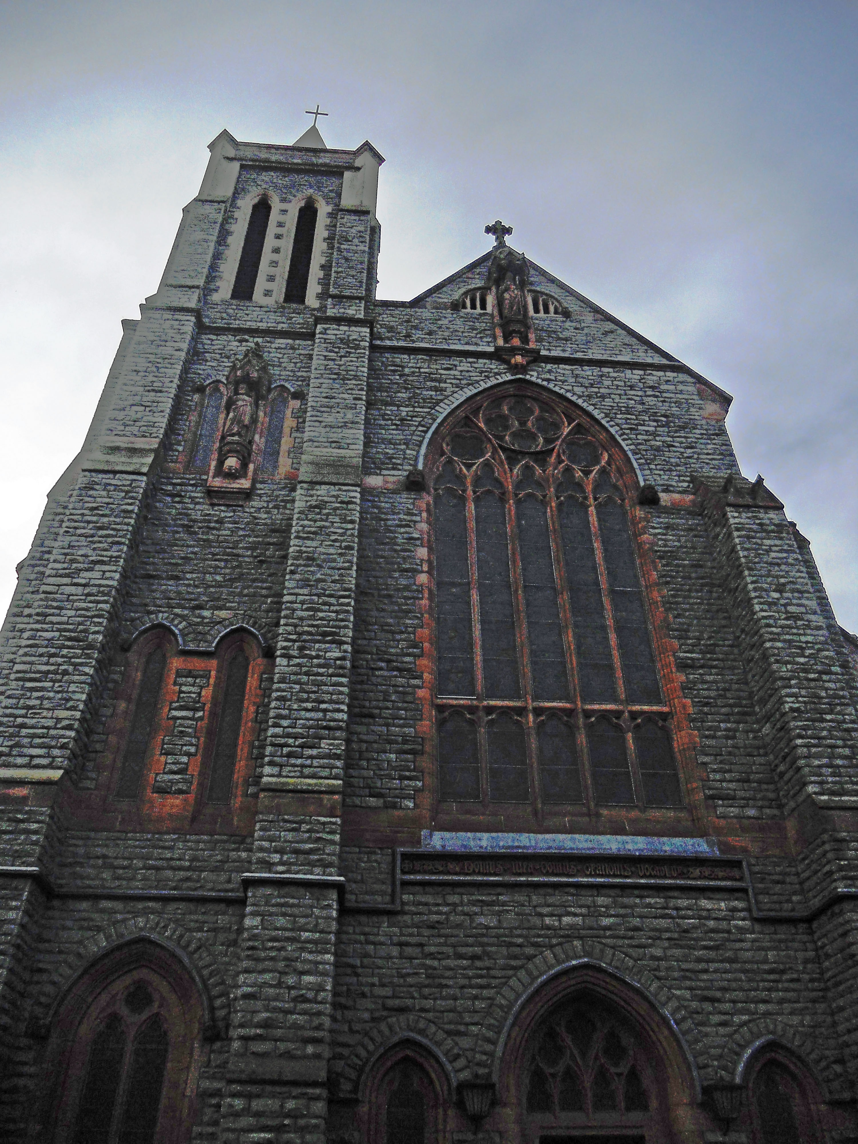 Cardiff Metropolitan Cathedral of St. David to give its full title. Cardiff's neo-Gothic catholic cathedral, completed in 1842.